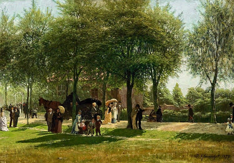 Sunday Afternoon on the Grafenberger Chausee